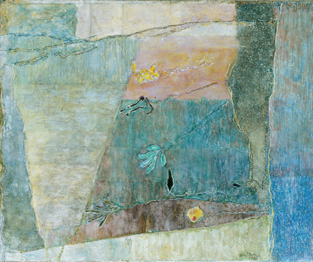 Painting by Ilka Gedő at a private collection ARTIFICIAL FLOWER WITH A GREY BACKGROUND Oil on canvas, 47 x 57 cm